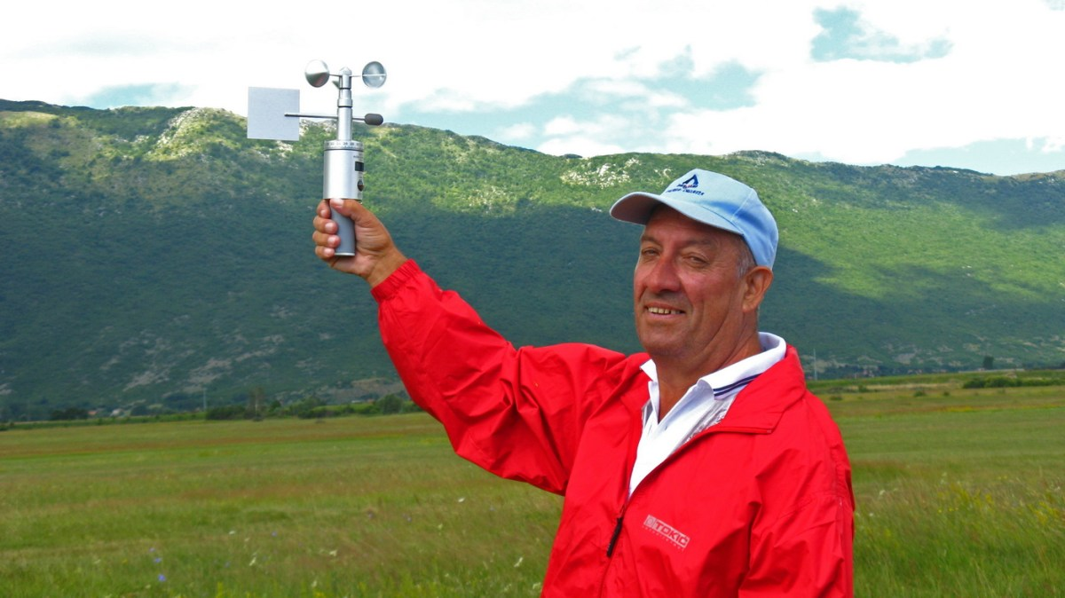 Founder of Aeroclub Livno